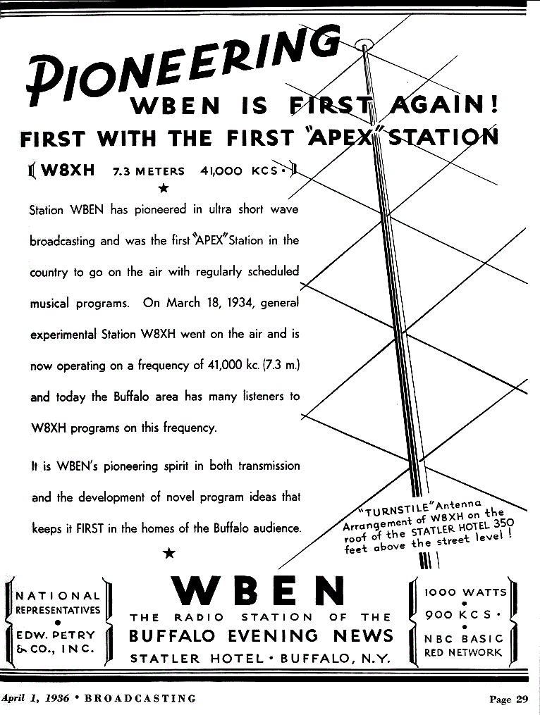 From March 18, 1934 to July 1939, radio station WBEN in Buffalo, New York operated an auxiliary "ultra short wave" experimental broadcast station, W8XH, which was part of a group of stations informally known as a "Apex" stations.